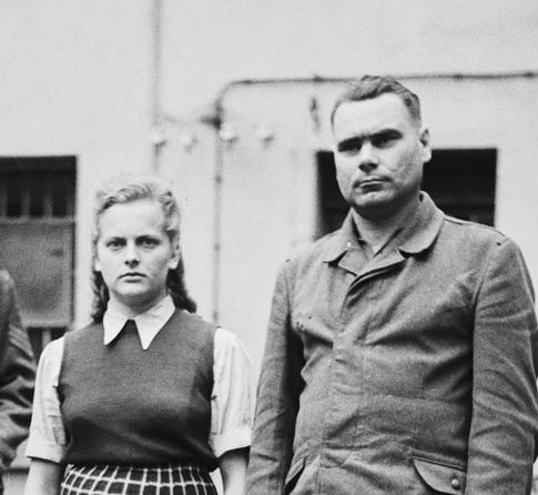 The Liberation of Bergen-Belsen concentration camp 1945 - Portraits of Belsen Guards at Celle Awaiting Trial, August 1945 Irma Grese standing in the courtyard of the Prisoner of War cage at Celle with Josef Kramer. Both were convicted of war crimes and sentenced to death.